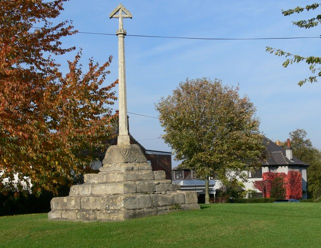 Stone cross in Muston, Leicestershire